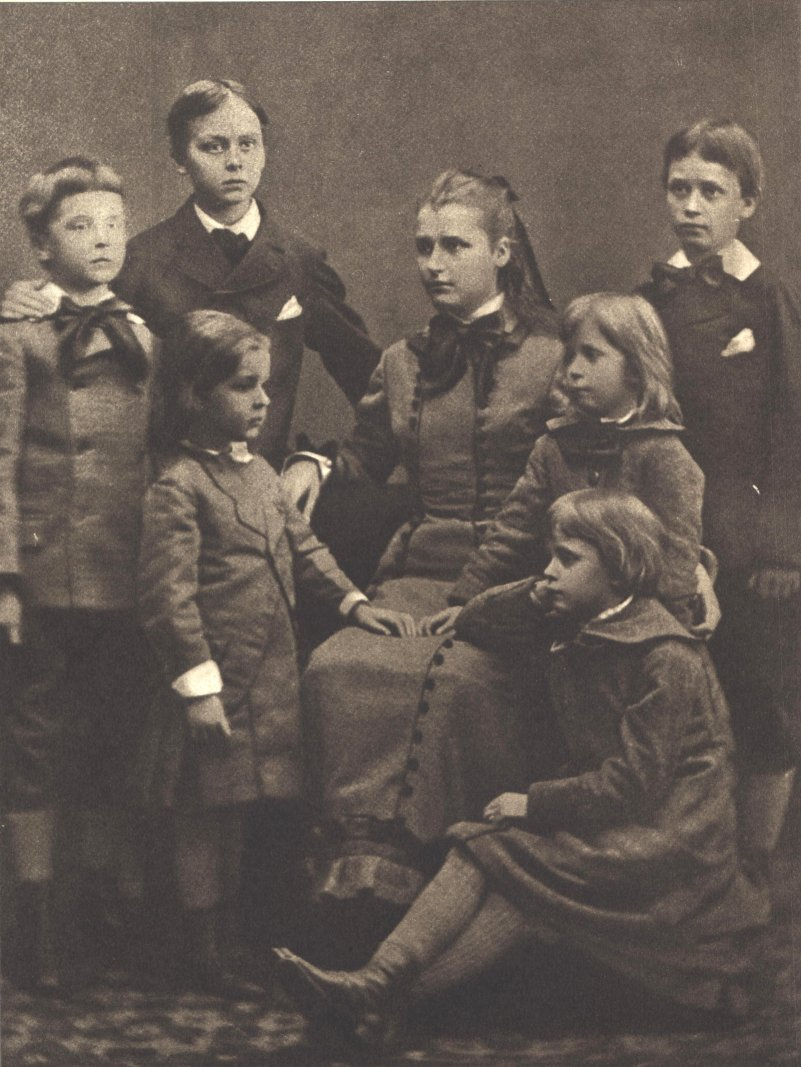 Mannerheim siblings. Middle: Sophie Mannerheim; left: Carl, August and Johan; right: Annicka and Carl Gustaf Emil (i.e. Gustaf); sitting: Eva. Photo taken around year 1880.